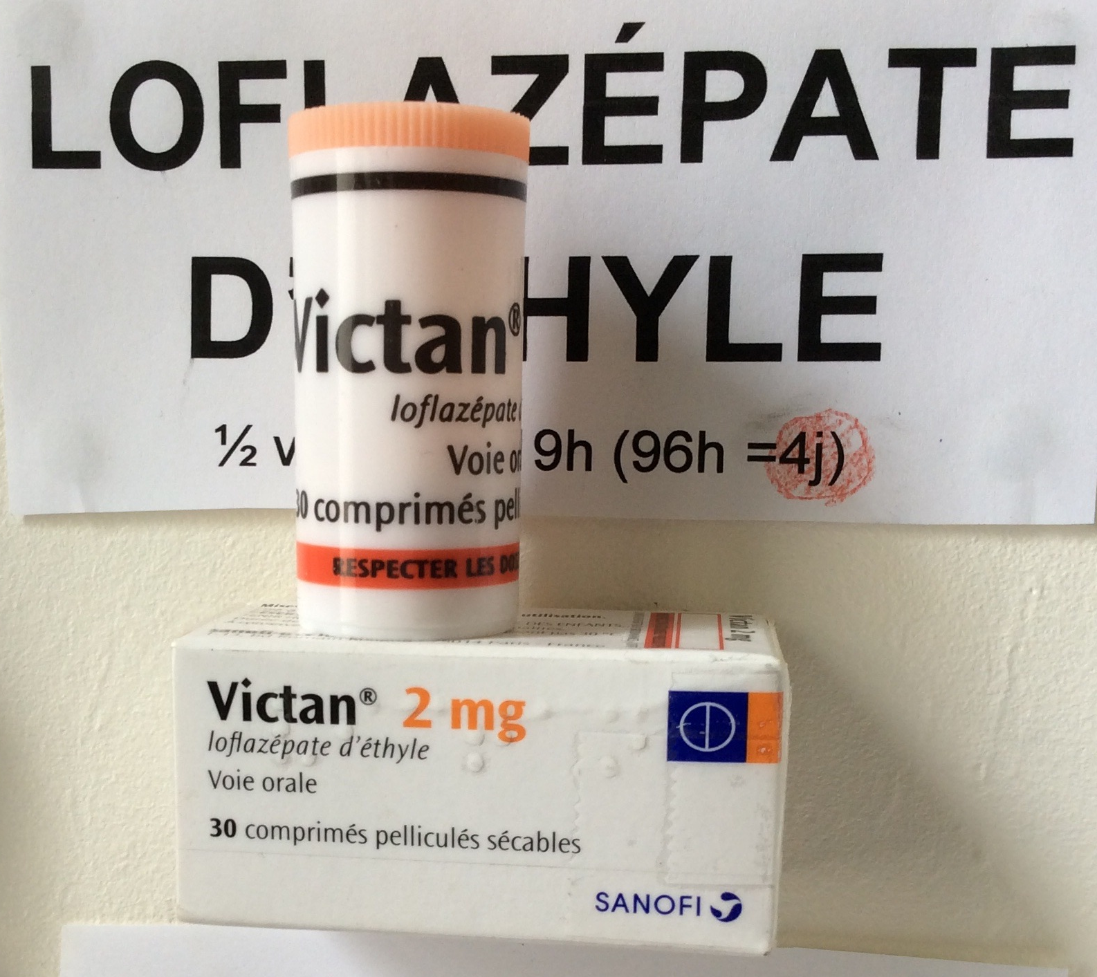 Boite de Loflazépate d'éthyle 2 mg